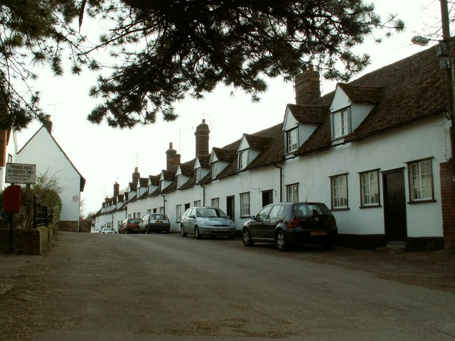 Audley End village, Essex. These 18th century cottages stand at the approach to St. Mark's College, directly south of the famous Audley End House.